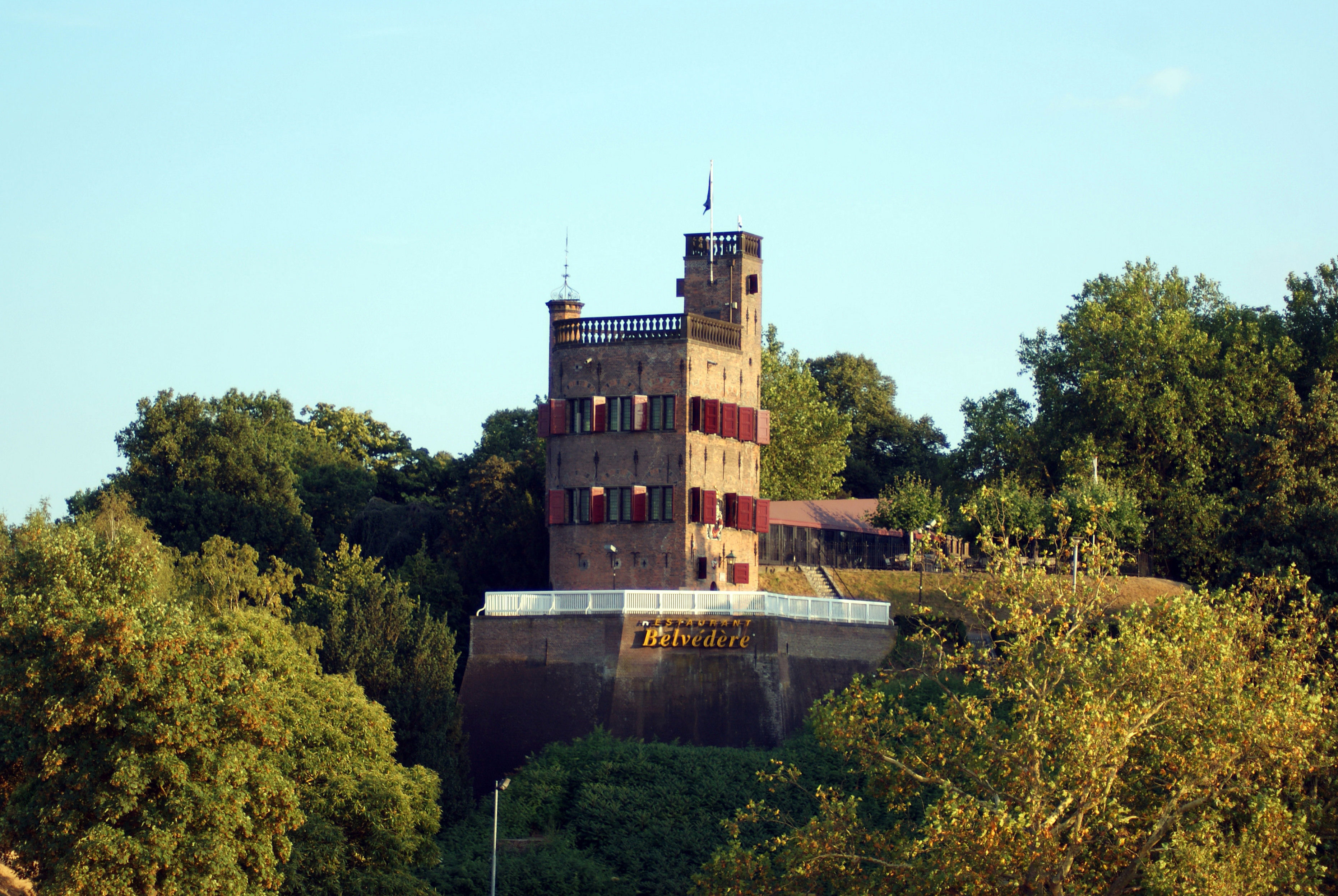 Belvédère Hunnerpark Nijmegen